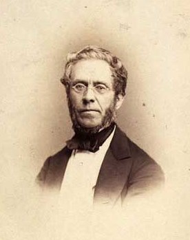 Vilhelm Jakob Bjerring (1805-1879), Danish linguist and politician, MP